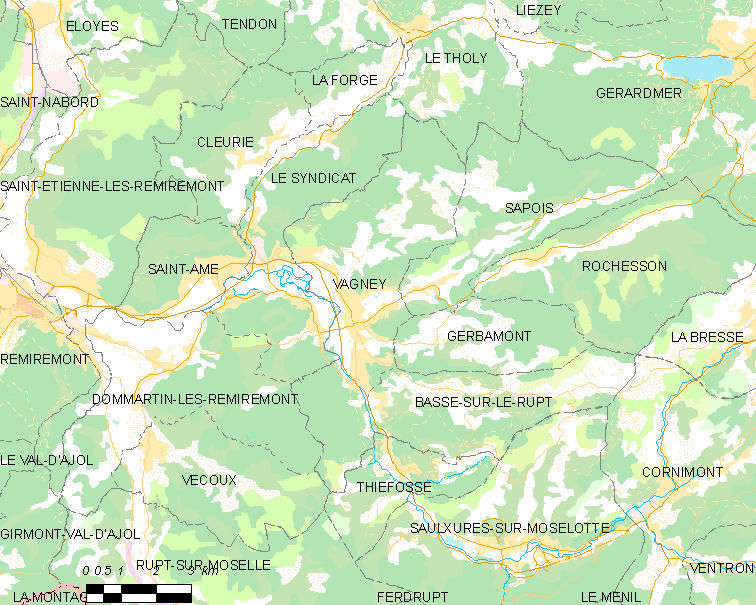 Map of French municipality Vagney